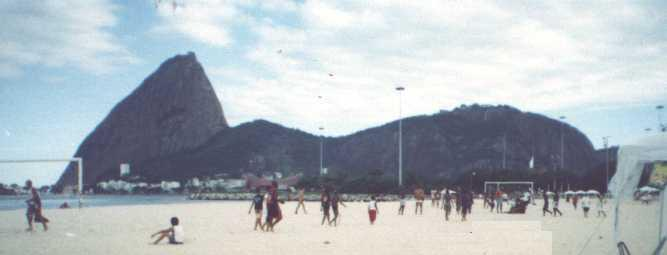 Flamengo beach, Rio de Janeiro. In the background, Pão de Açúcar (Sugar Loaf) and Morro da Urca